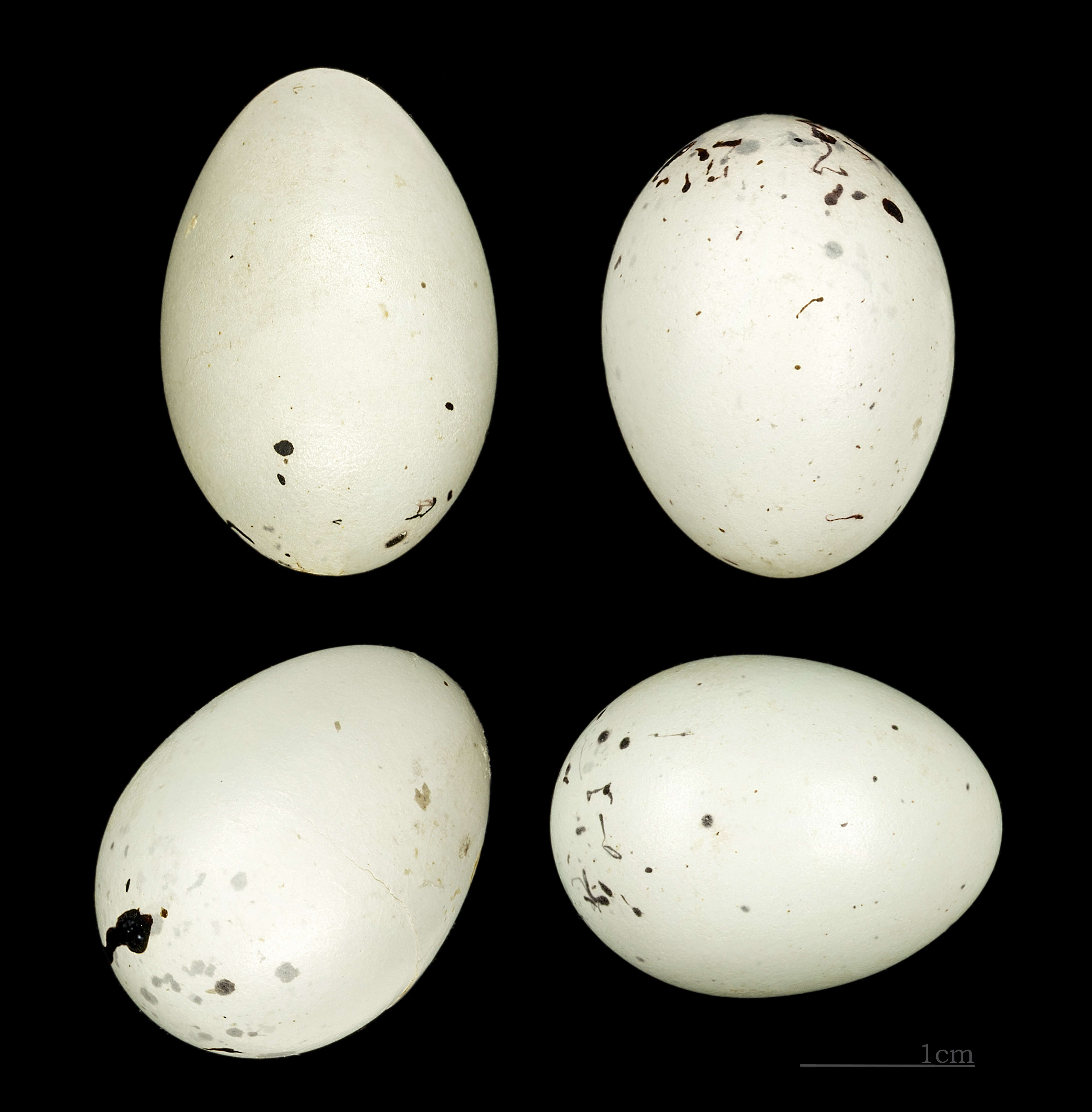 Egg of Chinese Grosbeak Collection of Henri Heim de Balsac /Jacques Perrin de Brichambaut.